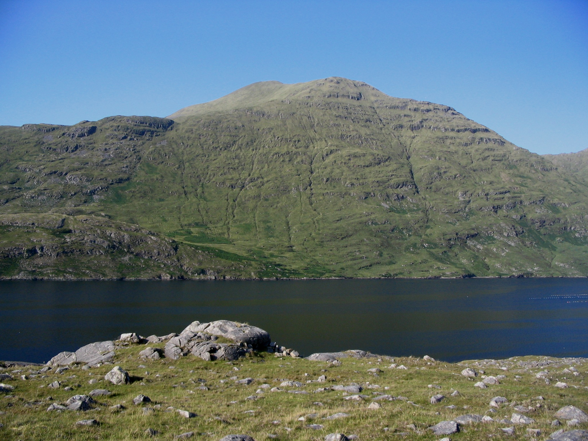 Mweelrea depuis Rosroe - Killary harbour-Mweelrea